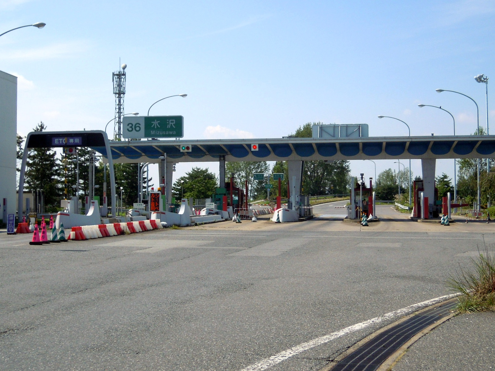 This Interchange, Mizusawa Interchange, is on Tohoku Expressway, in Oshu City, Iwate Prefecture, Japan.